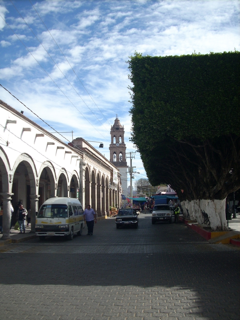 Maravatío, in Michoacan state, Mexico. Looking east from the central square (Portal 5 de Mayo) toward the parish church of St John the Baptist.